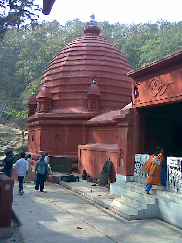 Basistha Temple, located in Basisthashram, under Beltola Mouza, Guwahati, was built by Ahom king Swargadeo Rajeswar Singha, in mid 18th century.